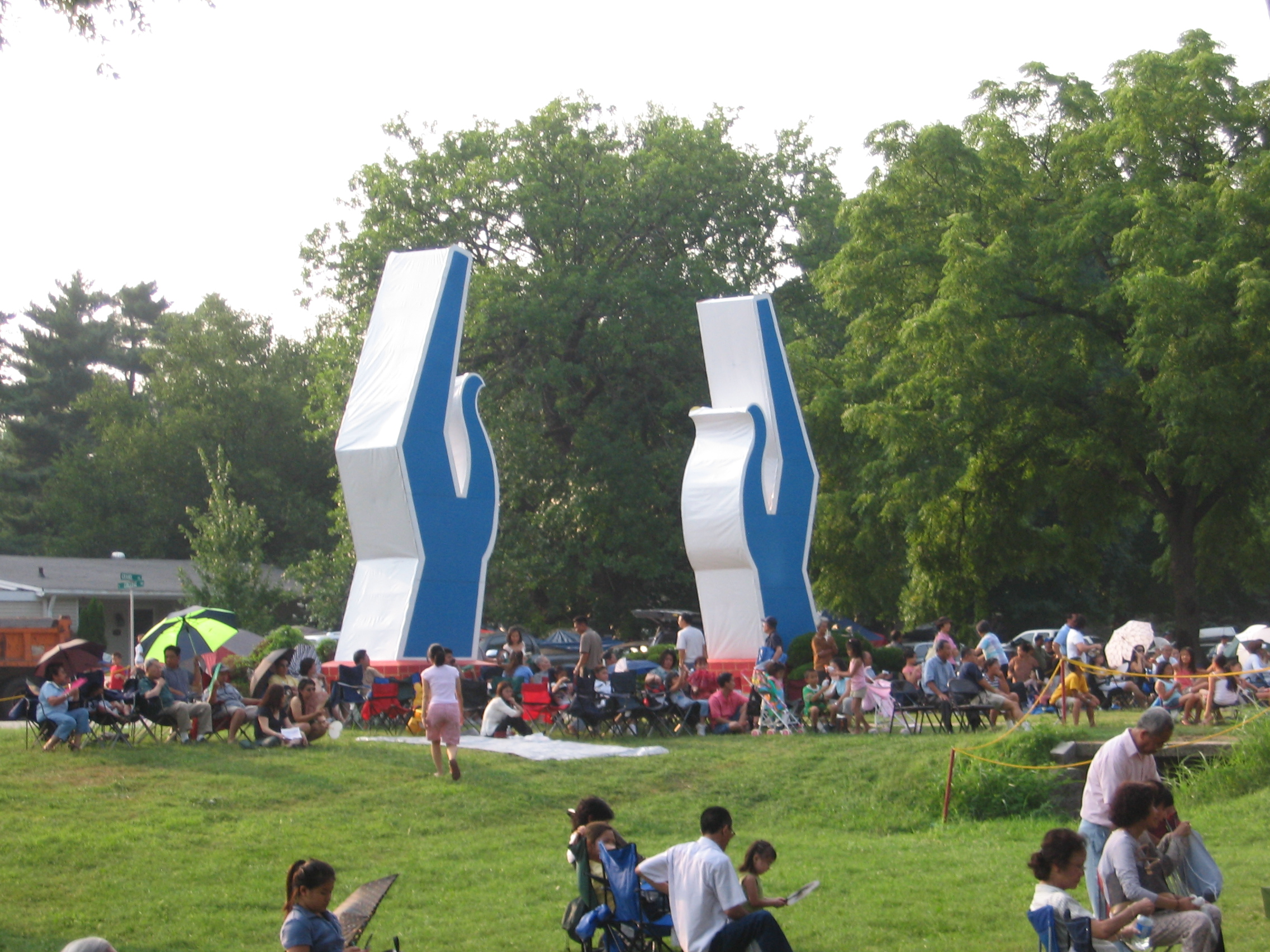 Praying hand sculptures in the 2007 Vietnamese American Roman Catholicism festival, Marian Days.